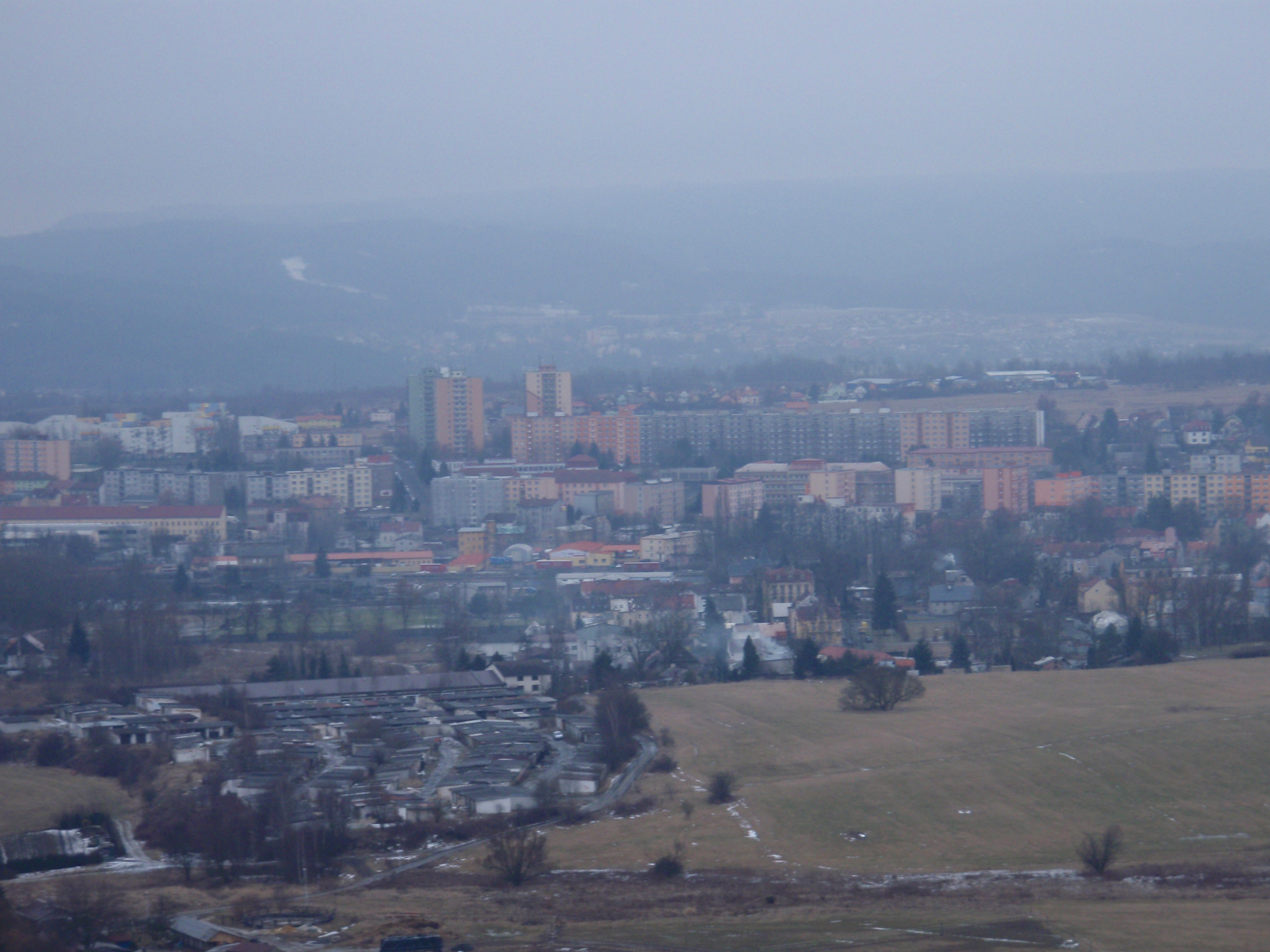 Stará Role